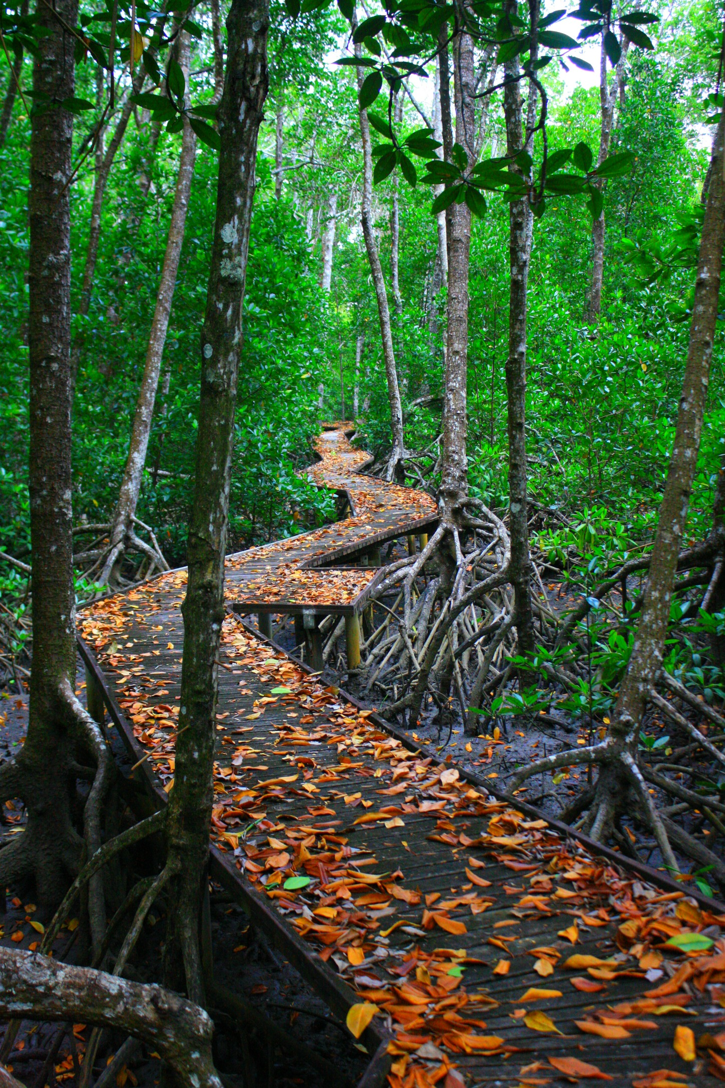 Boardwalk through a beautiful mangrove forest featured in Estuarine Conservation Zone as part of The Great Barrier Reef Marine Park. Mangroves are vital for keeping good health of marine ecosystems in tropical areas.